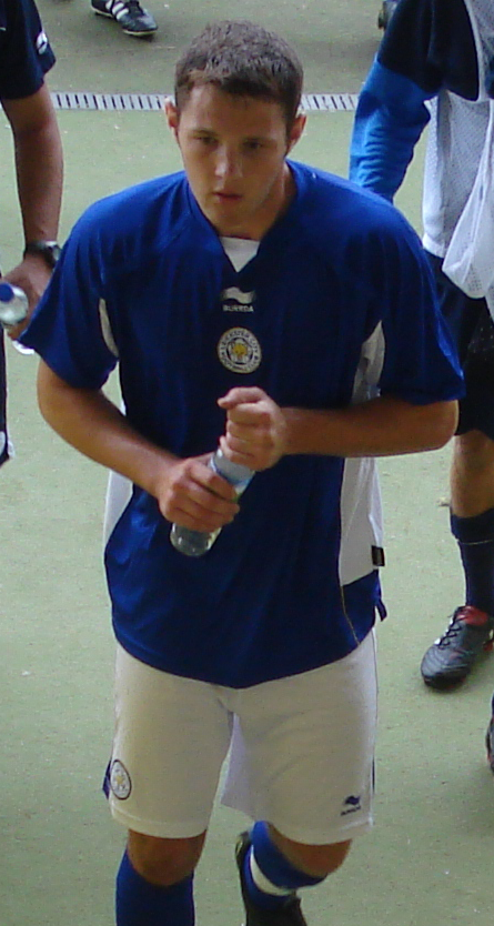 Image of Tom Parkes